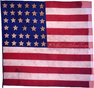 This is an image of the national colors carried by the 26th Regiment, US Colored Troops, organized at Riker's Island, New York City, to fight in the U.S. Civil War. Organized Feb. 26, 1864. Mustered out Aug. 28, 1865. The source is an agency of the government.